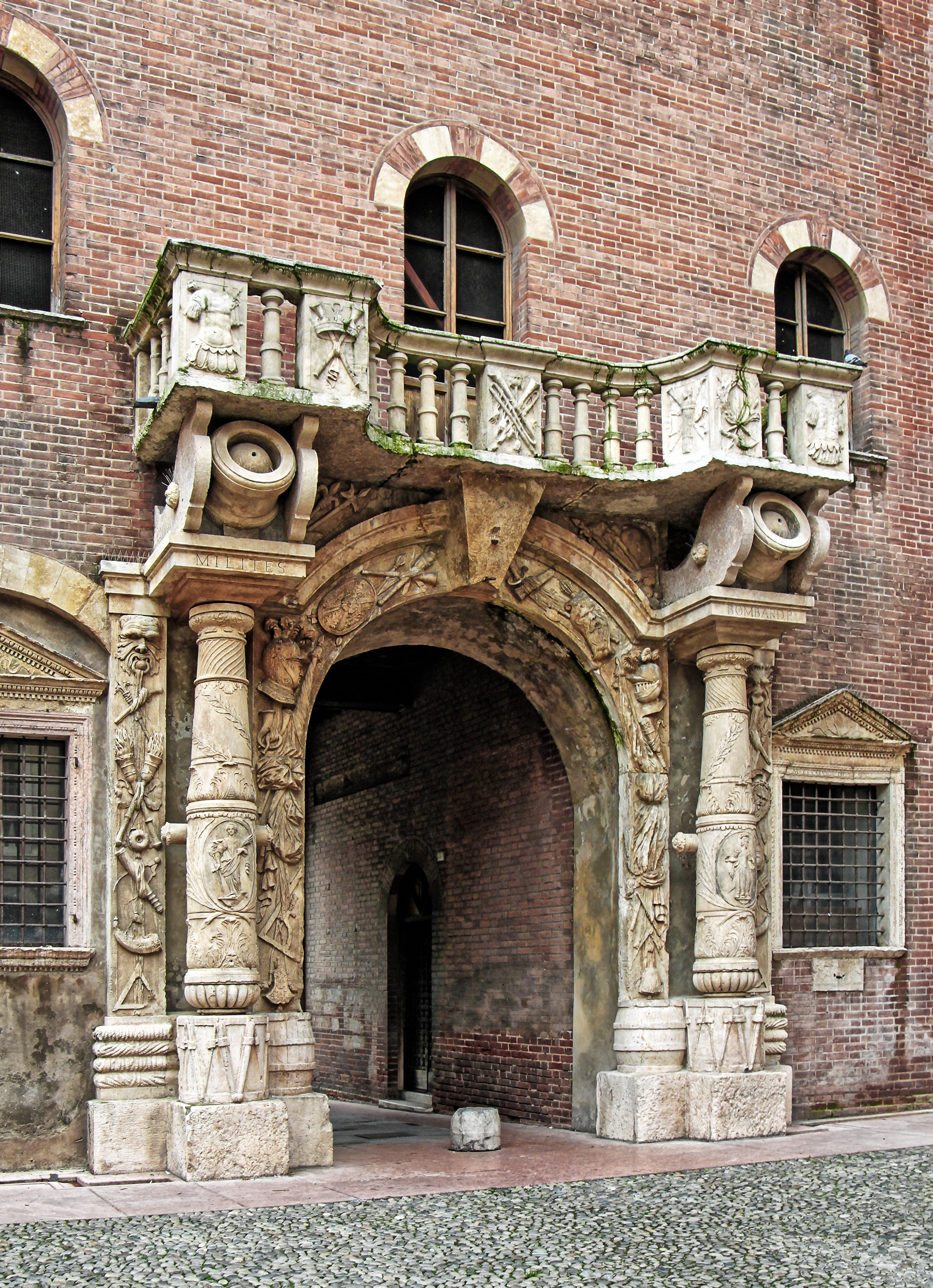 Porta dei Bombardieri, built in 1687 by Bernardino Miglioranzi, son of Giovanni Battista in the baroque style, at the Palazzo del Capitano (also called Palazzo di Cansignorio or Palazzo del Tribunale), Verona Italy.